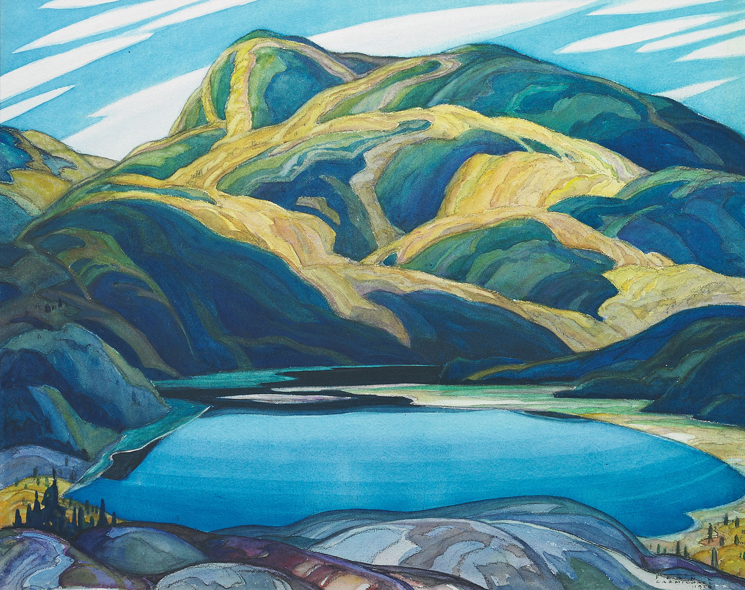 Lone Lake by Franklin Carmichel (1929)